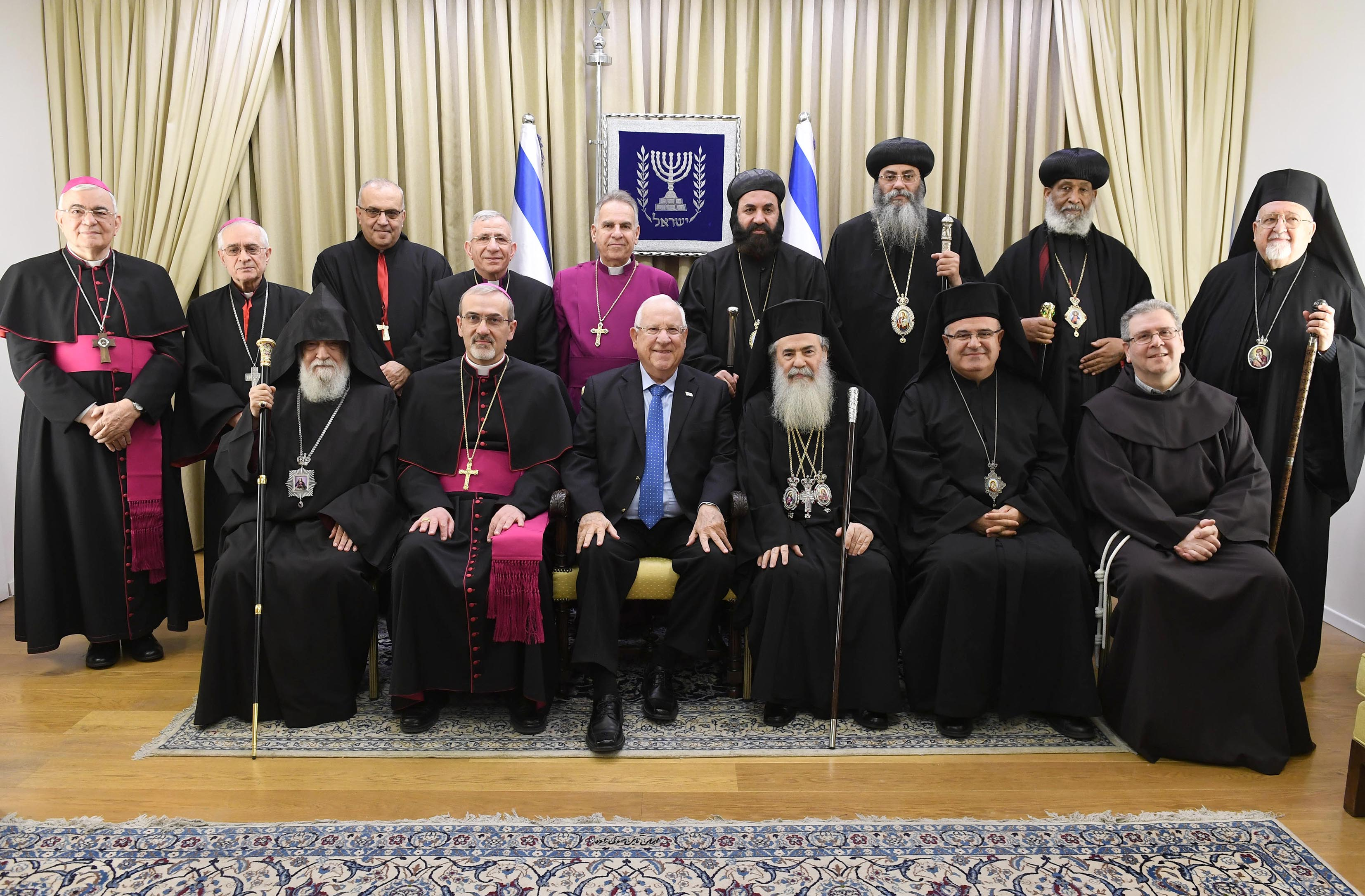 President of Israel, Reuven Rivlin, and the Minister of the Interior, Aryeh Deri, hosting the leaders of the Christian community at the traditional reception marking the New Year's Day. Wednesday, December 27, 2017. Photo Credit: Mark Neyman / GPO. Depicted people: Reuven Rivlin and the leaders of the Christian community in Israel